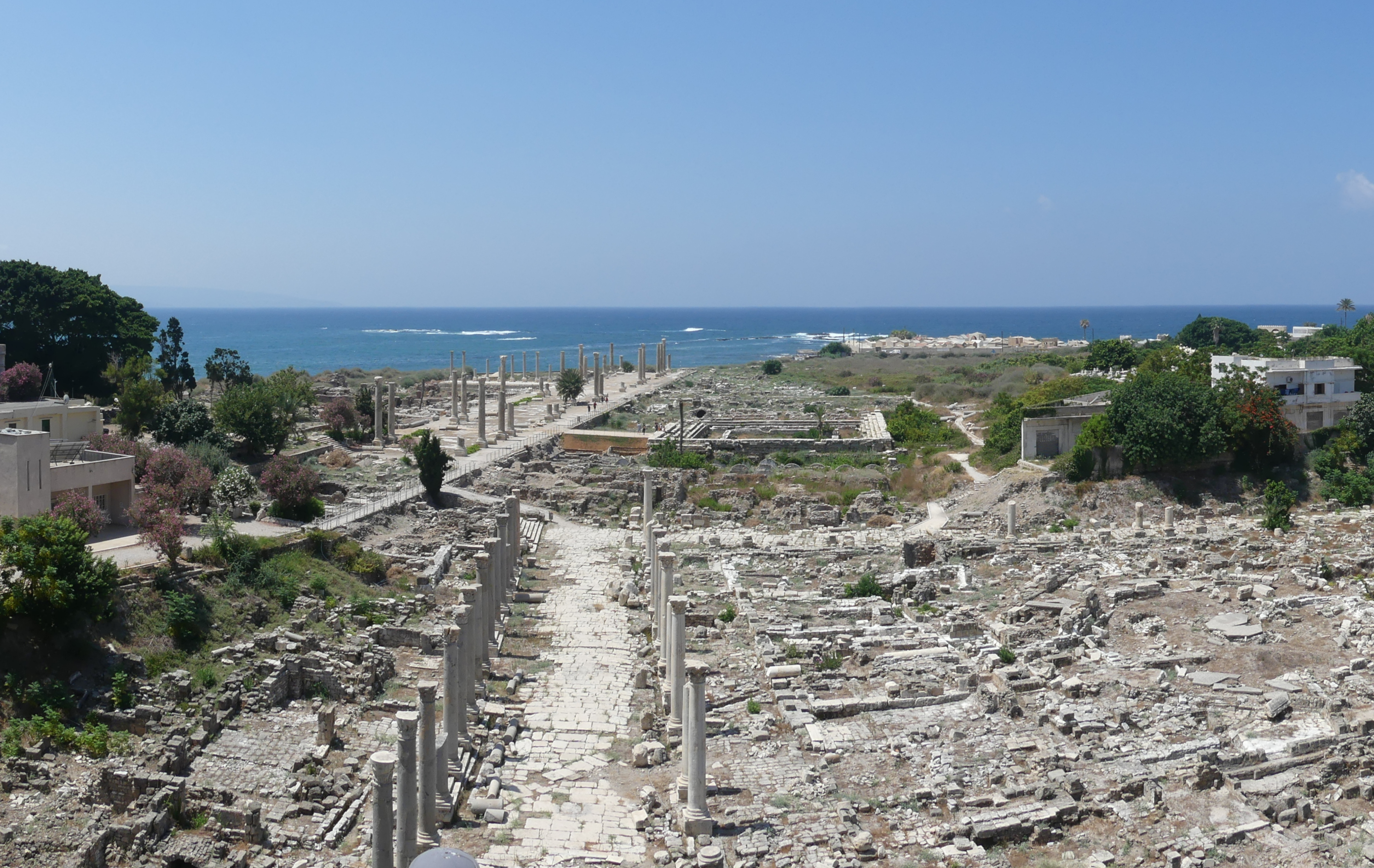 UNESCO World Cultural Heritage: the Al-Mina archaeological site (“City Site”) in Tyre/Sour, Southern Lebanon, which was the city centre and housed political, religious, commercial, industrial, and leisure activities